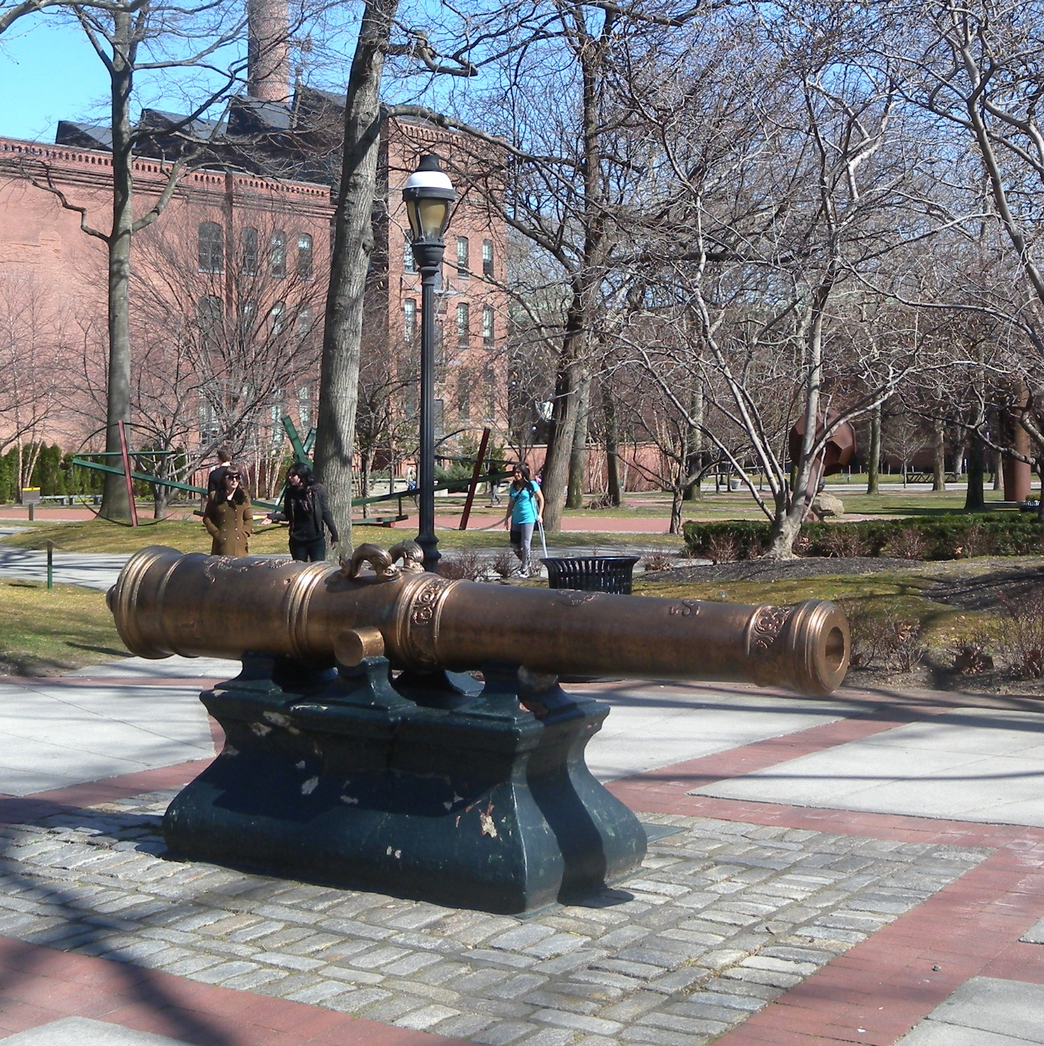 Looking northeast at Pratt's cannon on a sunny midday.